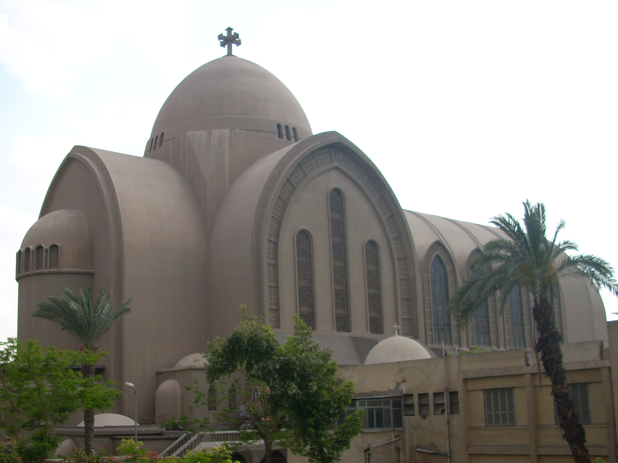 Coptic Orthodox Cathedral - Abbasyyia - Cairo